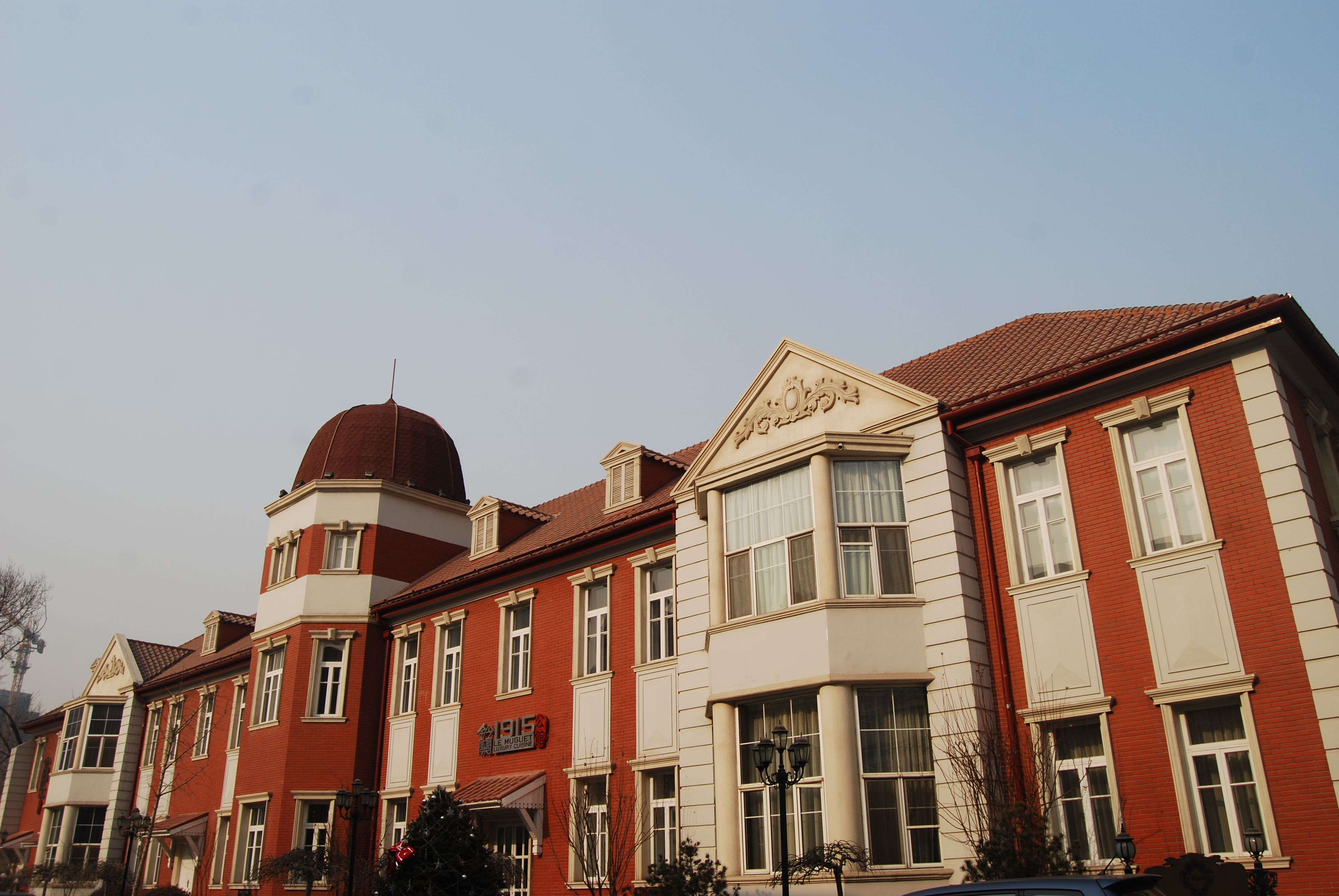 The Former Residence of Feng Guozhang (1859–1919, Beiyang Army general and politician) in Minzhu Dao No. 50–54, Hebei District, Tianjin